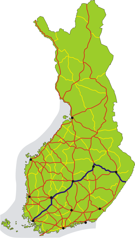 Map of the main road 9 in Finland, shown in dark blue. The other 1st class main roads (numbers 1–29) are red, 2nd class main roads (numbers 40–98) yellow. Black dots show the 12 biggest urban areas.